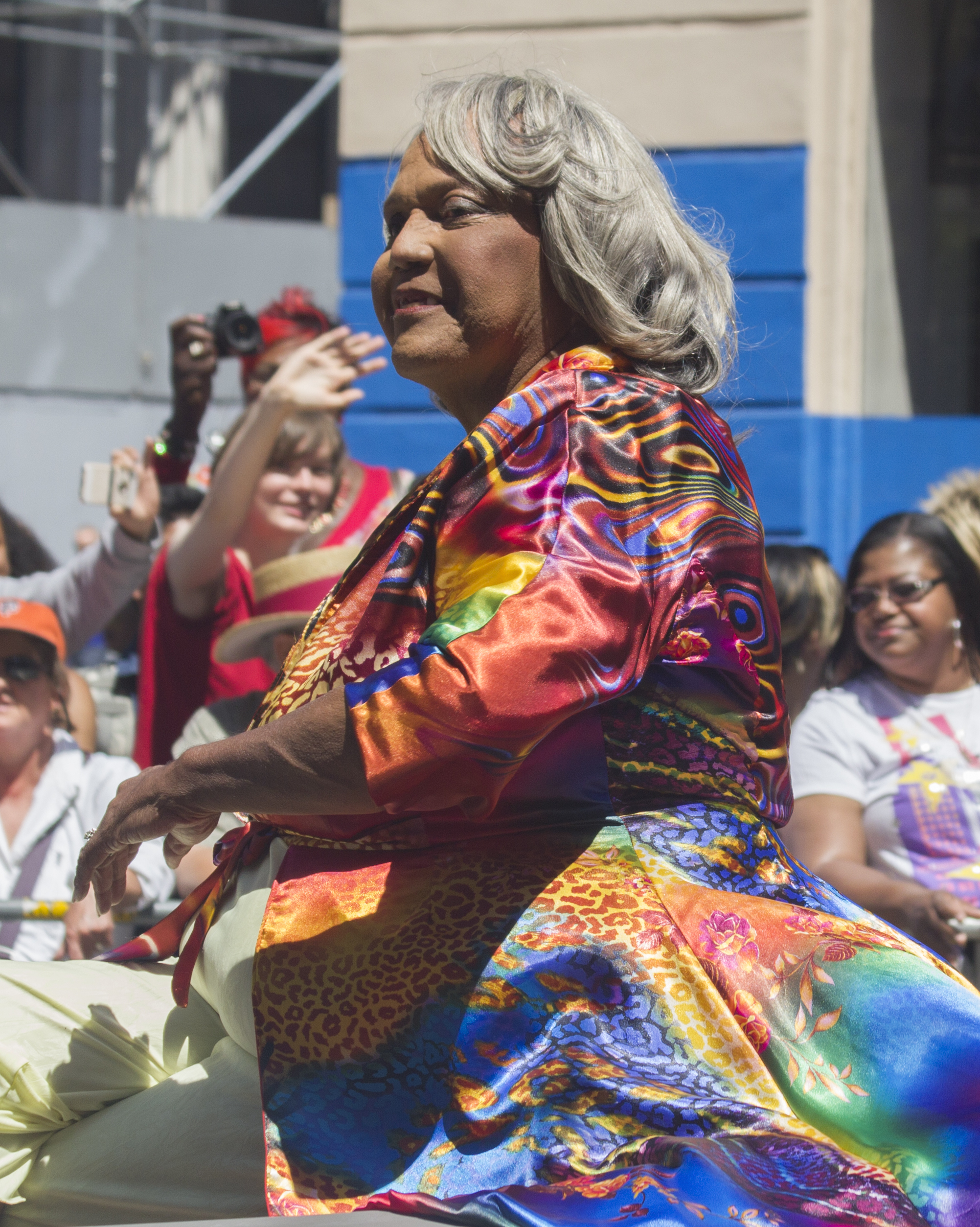 Miss Major Griffin-Gracy during the Pride 2014 parade in San Francisco, California.